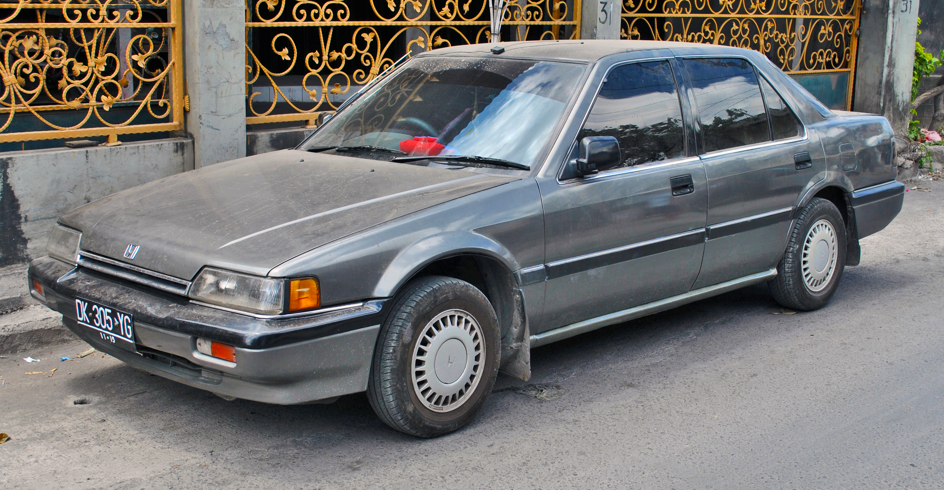 Honda Accord Prestige saloon/sedan photographed around Denpasar neighbourhood. "Prestige" is the marketing name for third generation Accord in Indonesia.